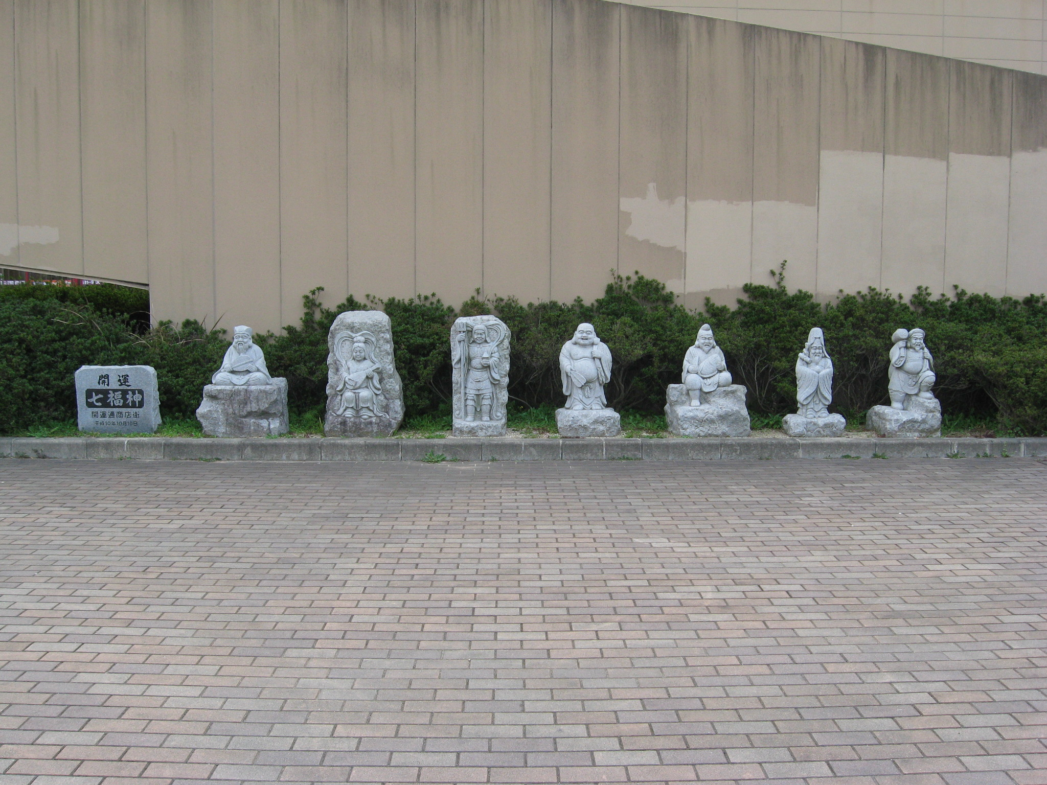 愛知県豊川市の開運通（豊川サティ前）にある七福神 (The Seven Gods of Fortune in Kaiun-dori, Toyokawa, Japan)